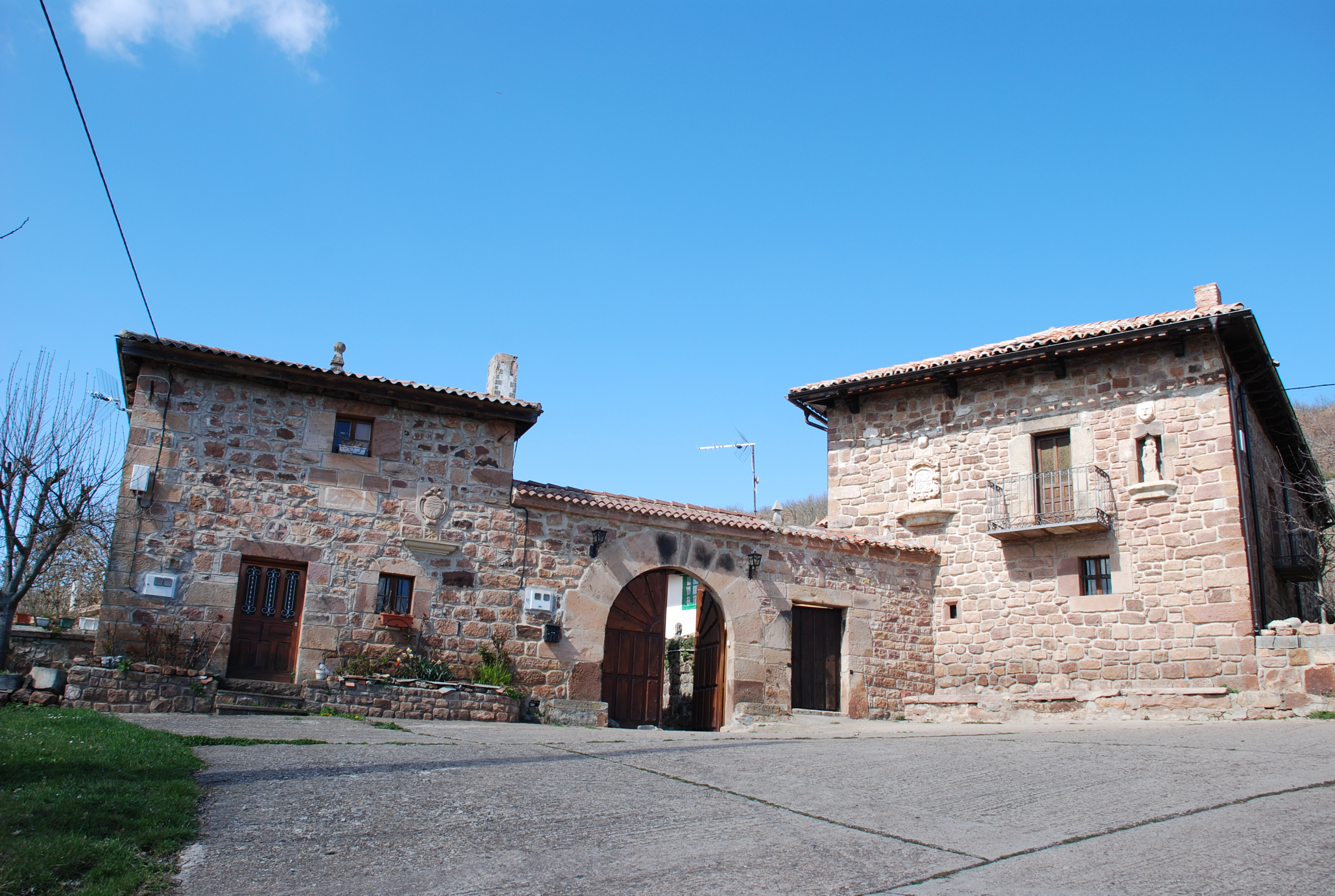 Manor houses in Villanueva de las Torres, small village in Barruelo de Santullán (Palencia, Castile and León).